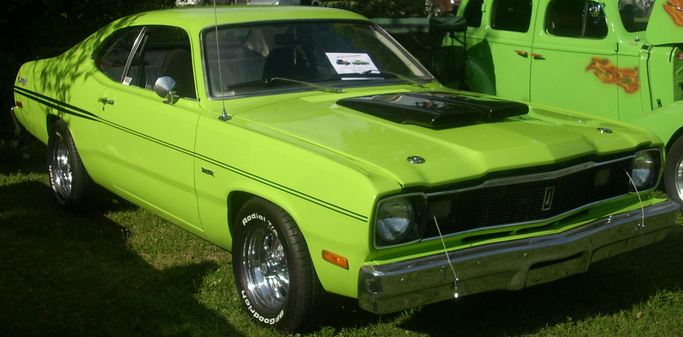 1975 Plymouth Duster 360 of Sophie Cayer photographed at the Rassemblement Rigaud Car Show.